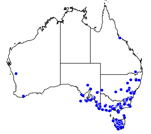 Distribution map of the bull ant Myrmecia pilosula, drawn after Jumper Ant (Myrmecia pilosula species group: as of 1 May 2015)